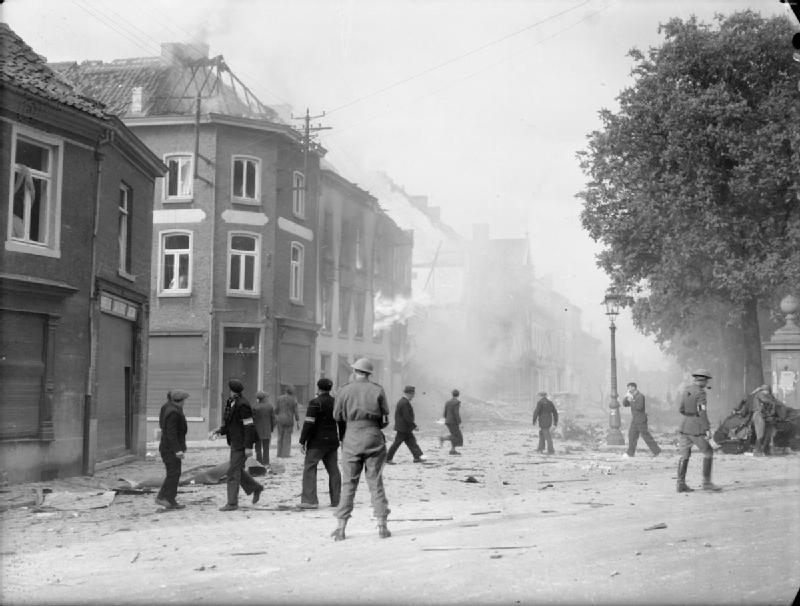 The British Army in France and Belgium 1940 The scene in Enghien in Belgium after an air raid, 14 May 1940.